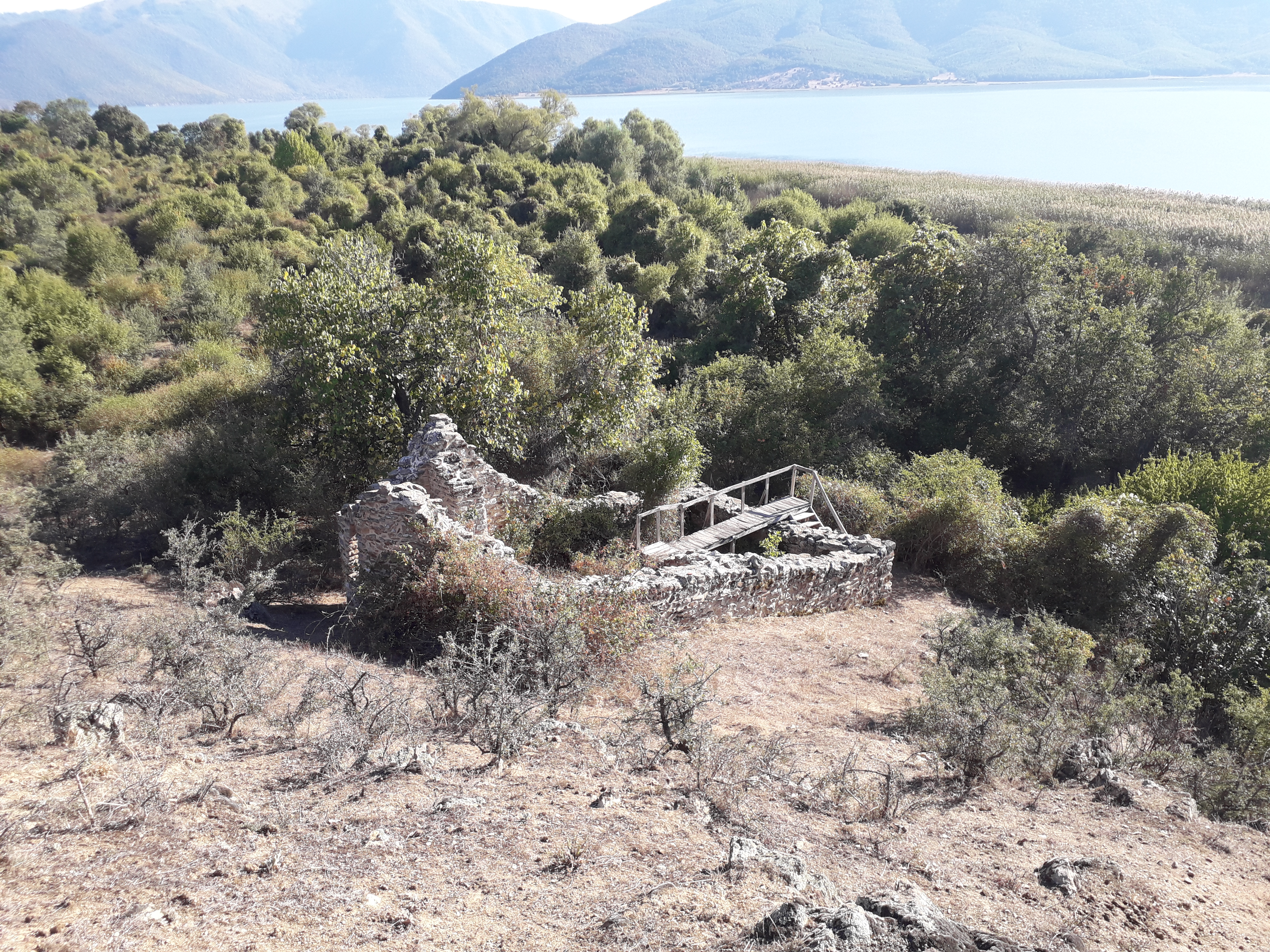 St. Dimitar, Ahil